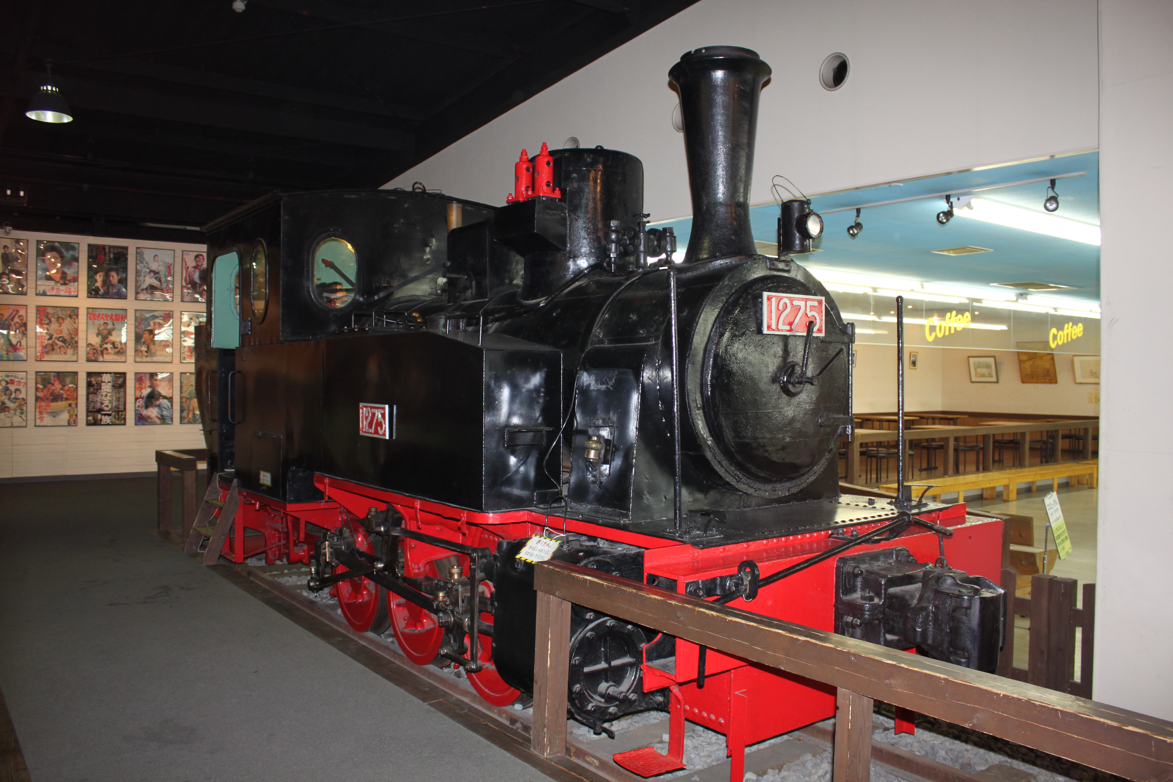 Oigawa-railway Steam locomotive No.1275. Photo is taken at "Plaza loco" in Shimada city.